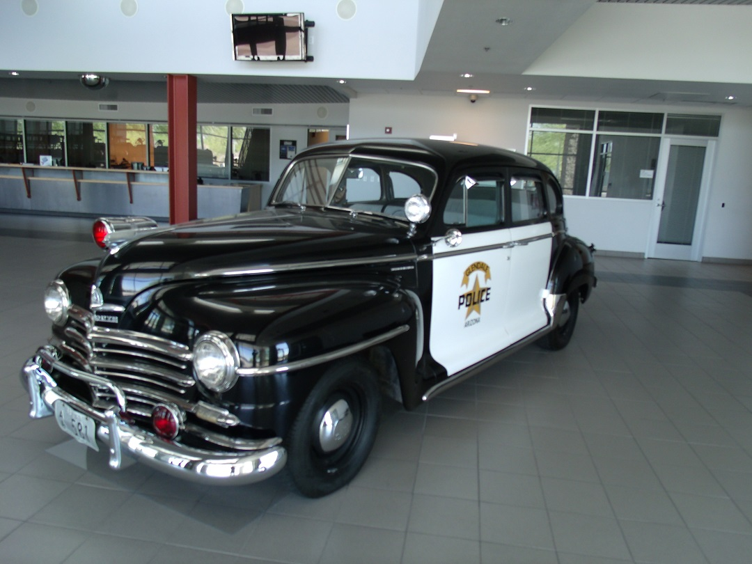 Police Car – 1947 Plymouth – This vehicle was once confiscated from a local drug dealer and turned over to the Glendale Police Department in Glendale, Arizona. It was restored and is used in special events. The car is on exhibit at the Glendale Training Center located at 11330 W. Glendale Ave. in Glendale.